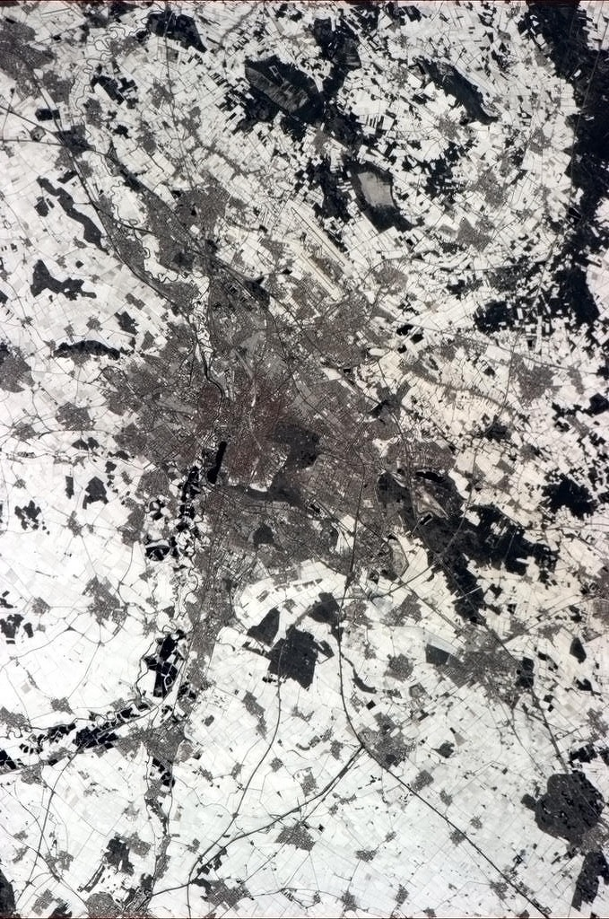 "Looking to the north to Hannover, Germany, a major hub of road and rail. Famous for its old town and zoo." Caption by astronaut Chris Hadfield on board the International Space Station. ISS Crew Earth Observations: ISS034-E-067760IdentificationMissionISS034 (Expedition 34)RollEFrame067760Country or Geographic NameGERMANYCameraCamera Focal Length400 mmCameraNIKON D3SQualityPercentage of Cloud Cover0-10%Nadir What is Nadir?Date2013-03-13Time10:03:10